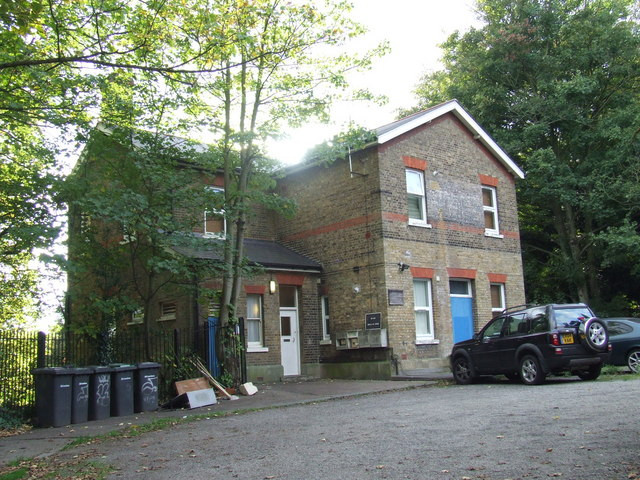 Upper Sydenham former railway stationThis building was originally a railway station. Upper Sydenham station opened in 1884, on the branch line to Crystal Palace High Level. This line was never very successful and was closed in 1954. The station house has been converted into flats.